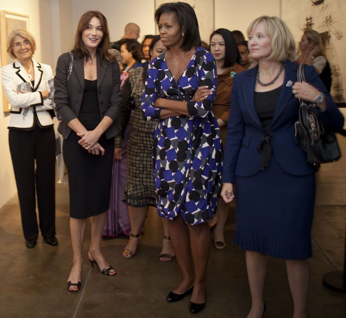 First Lady Michelle Obama and the spouses of the G20 leaders tour the Andy Warhol Museum in Pittsburgh, Penn., Sept. 25, 2009.